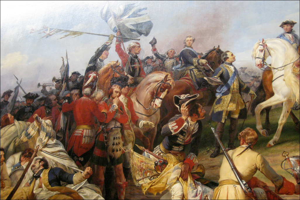 Battle of Fontenoy by Horace Vernet (detail)